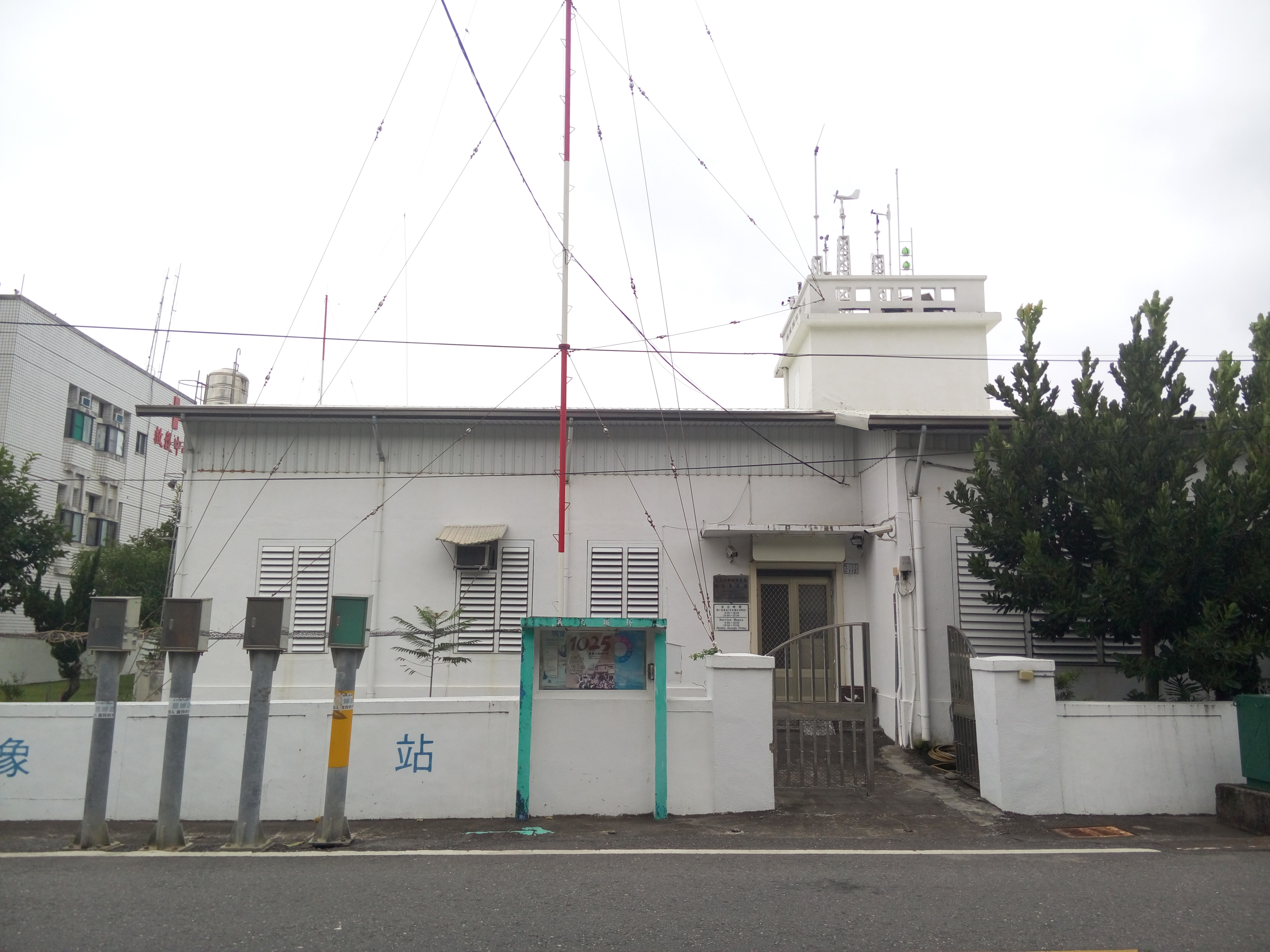 Ta-Wu Weather Station